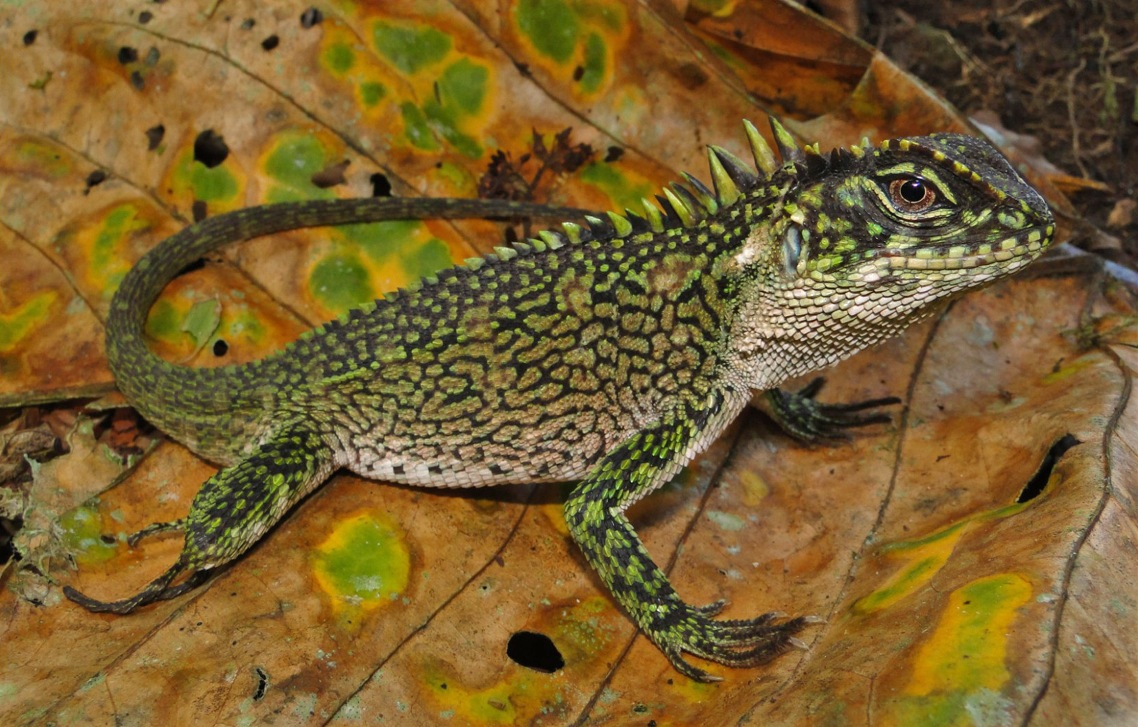 Holotype of Enyalioides binzayedi (CORBIDI 08828, adult male, SVL = 118 mm), lateral view. Photograph by P.J. Venegas.